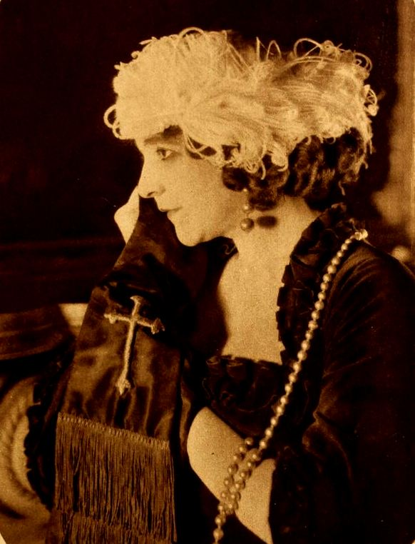 Still from the American film Romance (1920) with Doris Keane, from an adaption of the film on page 63 of the July 1920 Motion Picture Magazine.